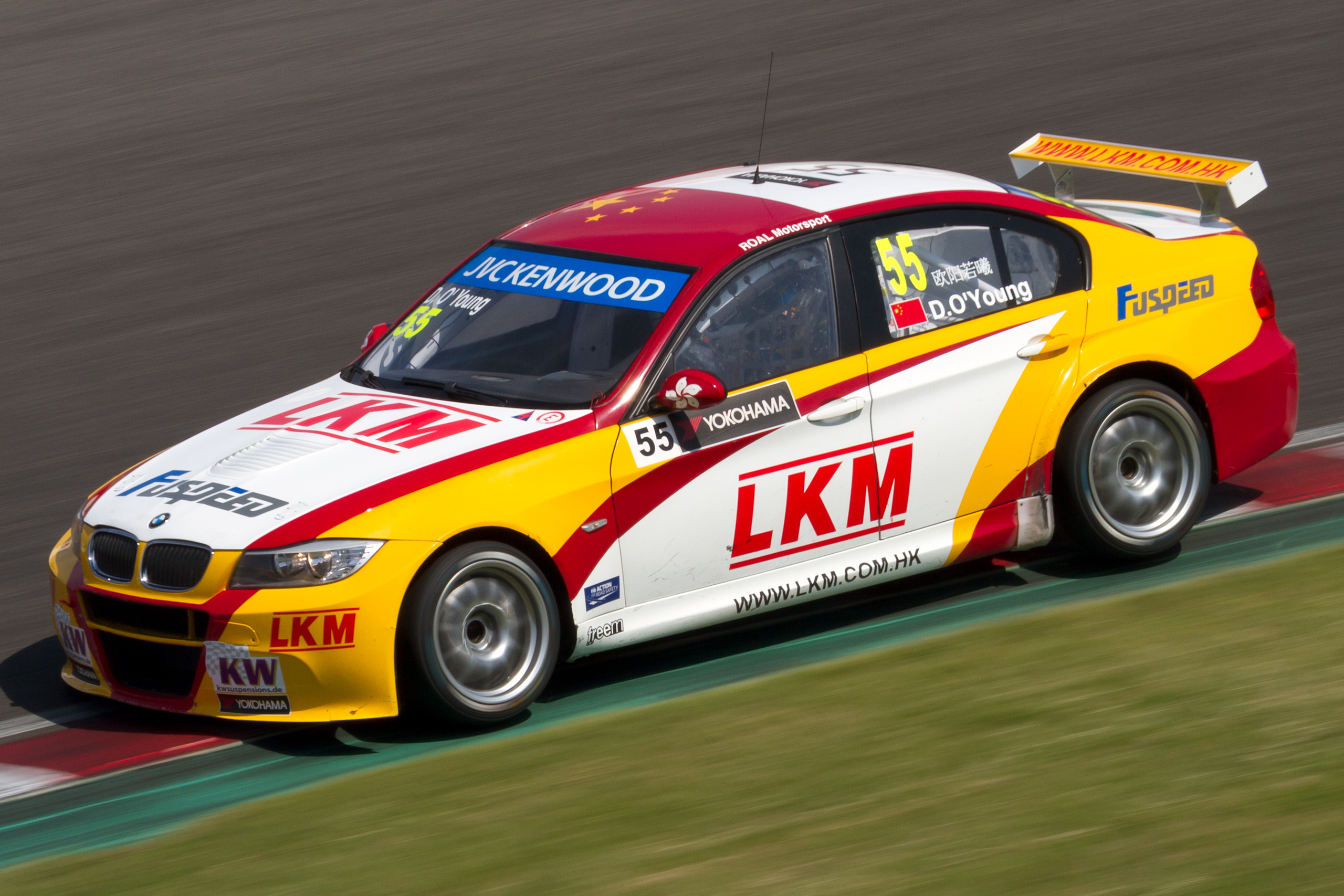 World Touring Car Championship 2013 Race of Japan: Darryl O'Young (ROAL Motorsport)